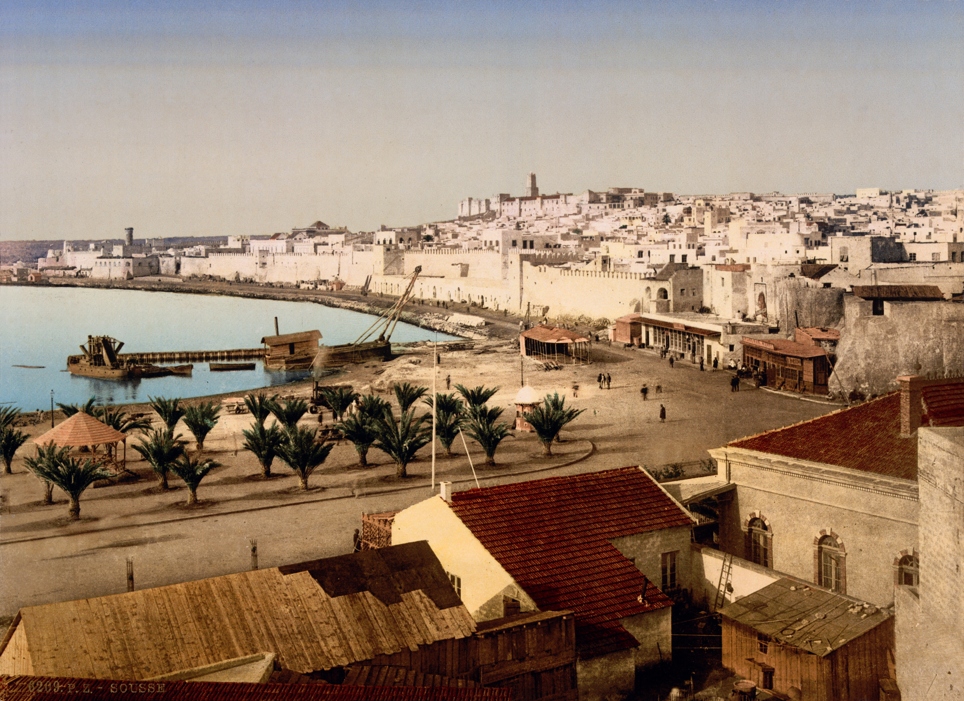 6209 P.Z. Sousse. Photochrom print by the Detroit Photographic Co., licensed from Photoglob Zürich, ca. 1899. From the Photochrom Print Collection at the U.S. Library of Congress. More photochromes of Tunisia | More photochrom prints [PD] This picture is in the public domain.